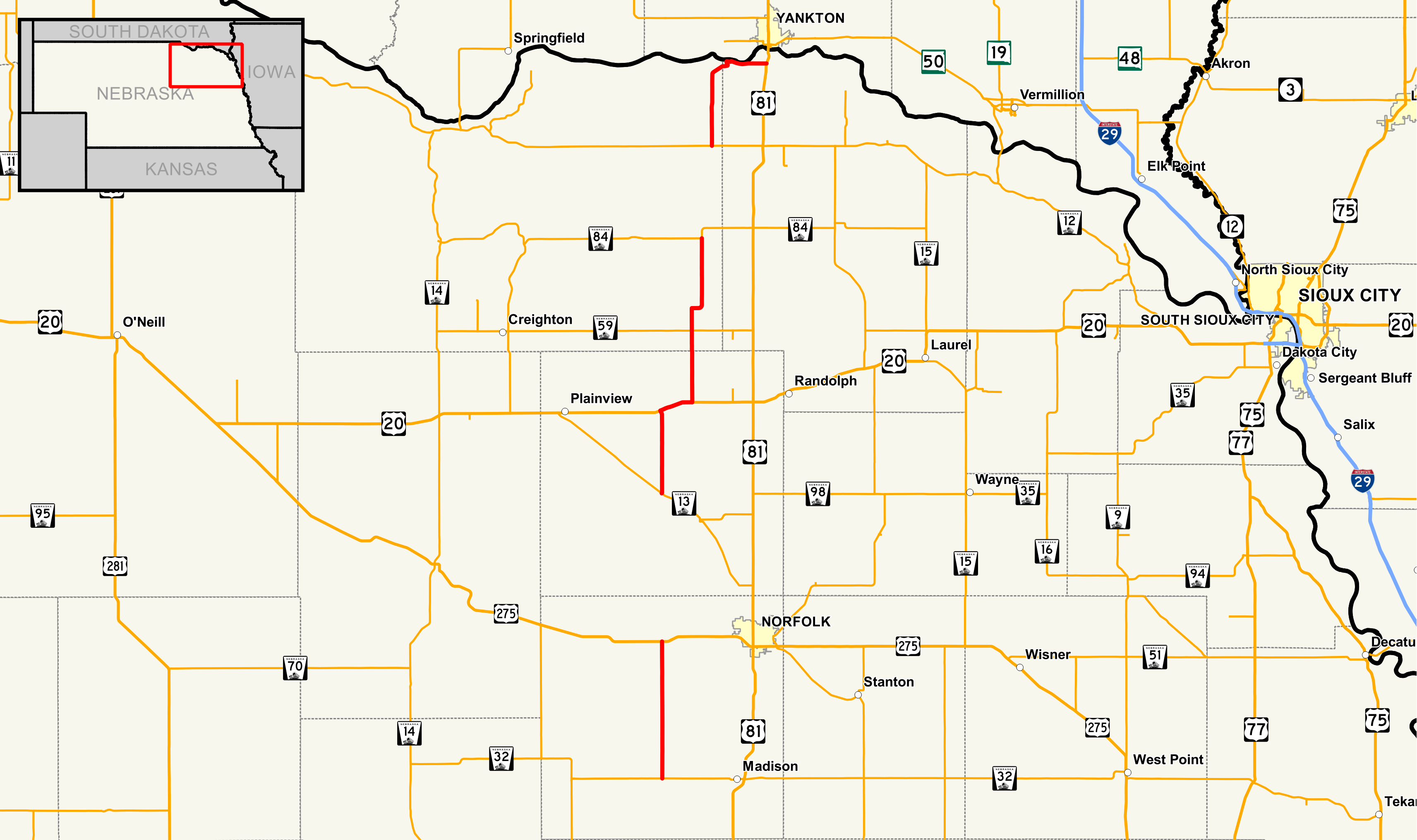 Map of Nebraska Highway 121 Data Sources: Nebraska Highways - - Dec 2016 Nebraska County Boundaries - - Dec 2016 Nebraska City Boundaries - - Dec 2016 This PNG graphic was created with QGIS